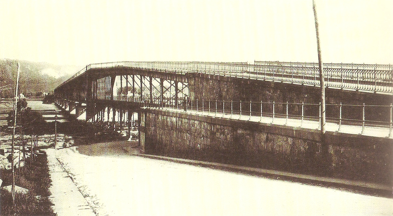 Viana do Castelo Road-Rail Bridge, in the Minho Railway, in Portugal.